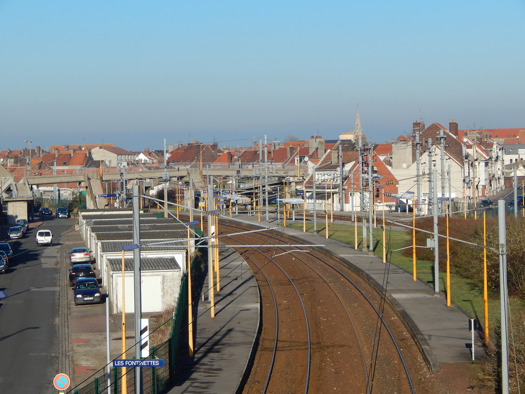 French rail station